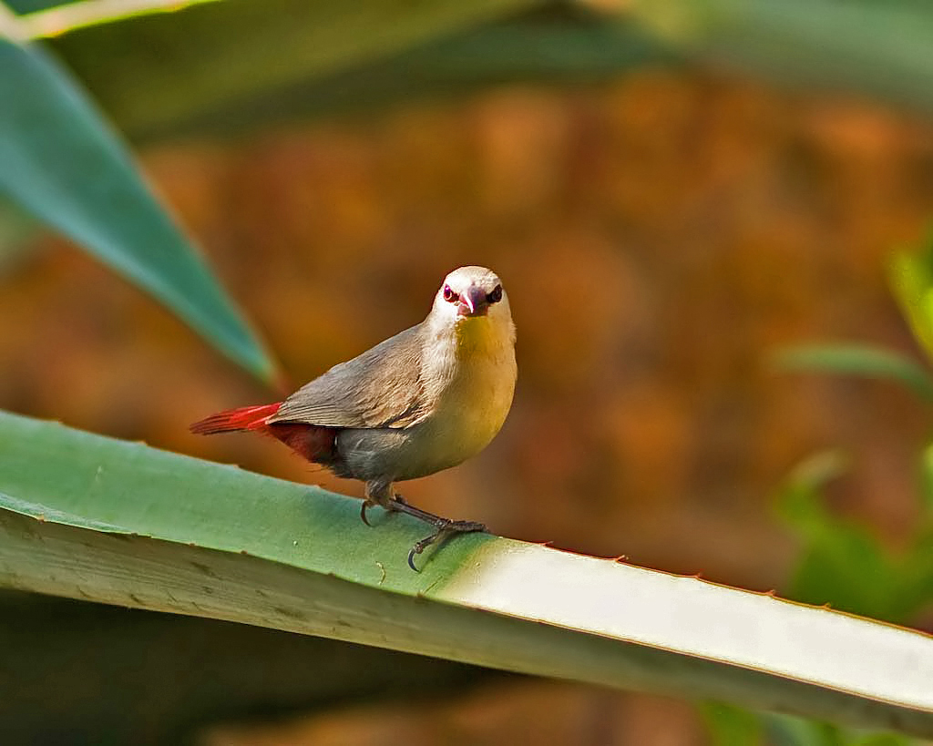 Lavender Waxbill (Estrilda caerulescens), Footsteps Eco-lodge, The Gambia, November 2008 (latherspics)